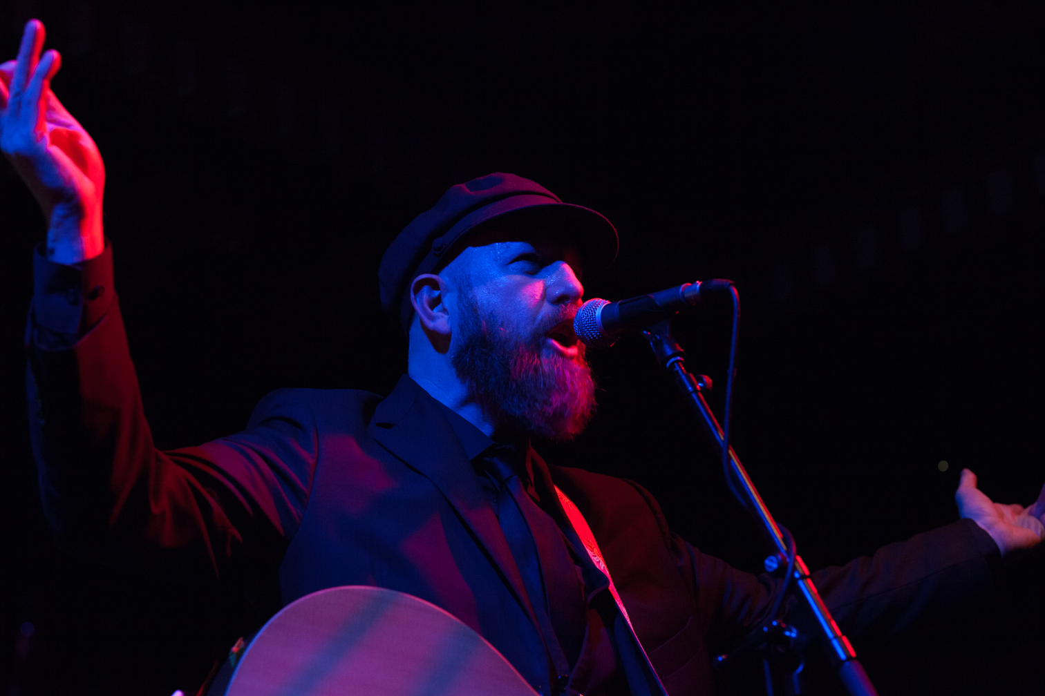 Martin Metcalfe performing in Edinburgh, March 2018